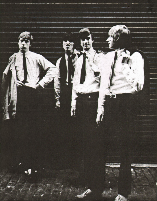 The Yardbirds in 1966, left to right: Chris Dreja, Jeff Beck, Jim McCarty and Keith Relf. It is missing Paul Samwell-Smith or Jimmy Page depending on when it was taken